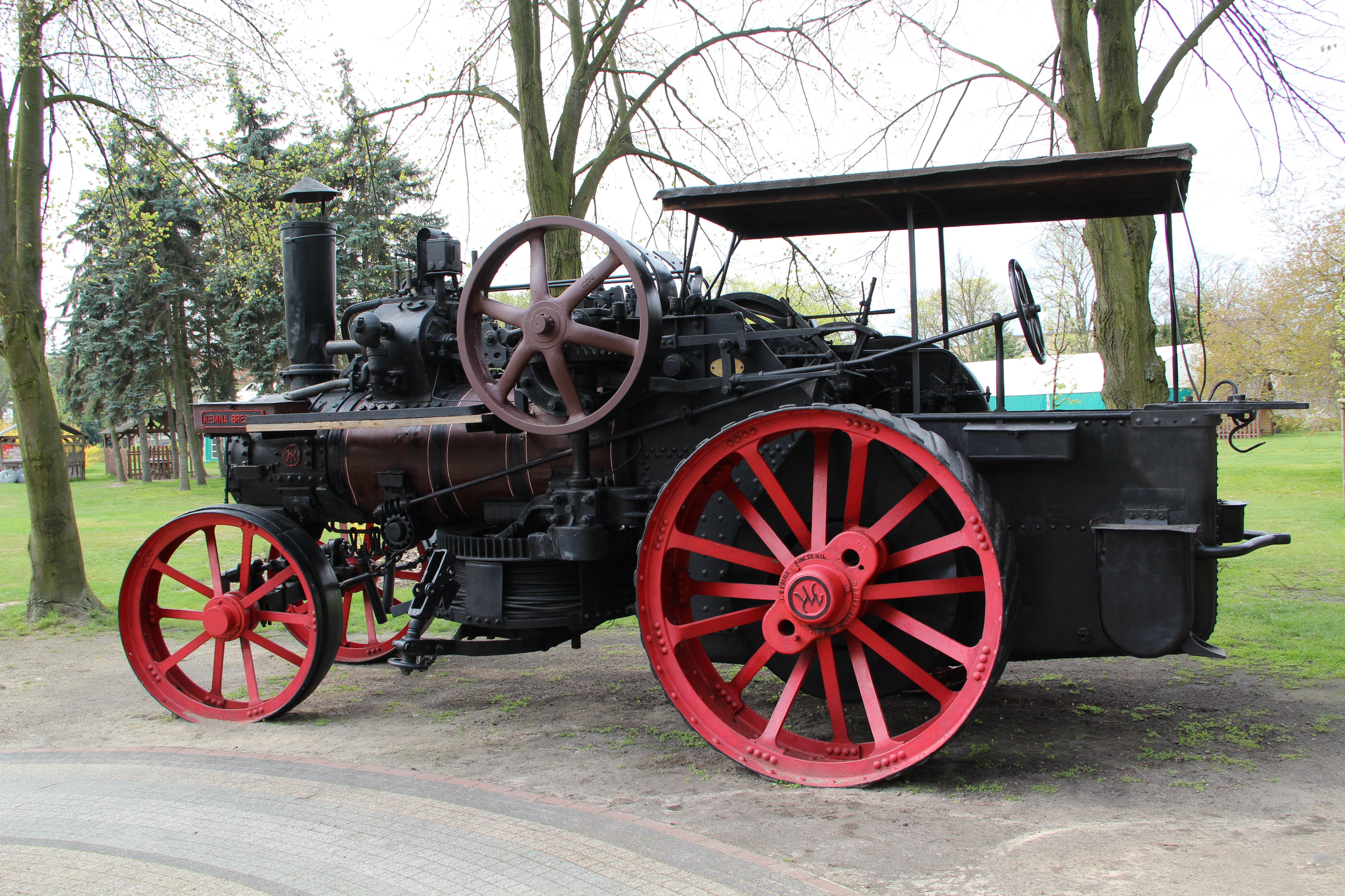 National Museum of Agriculture in Szreniawa: traction engine, Kemna-Breslau, 1927